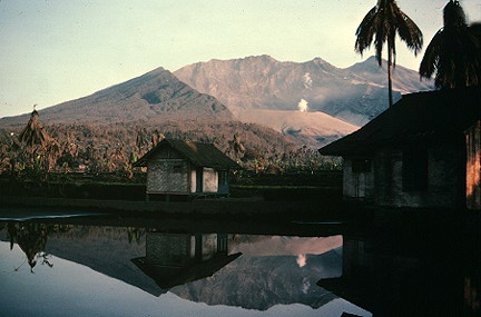 Galunggung is a stratovolcano on the west side of the island of Java. The caldera of Galunggung is open to the southeast.